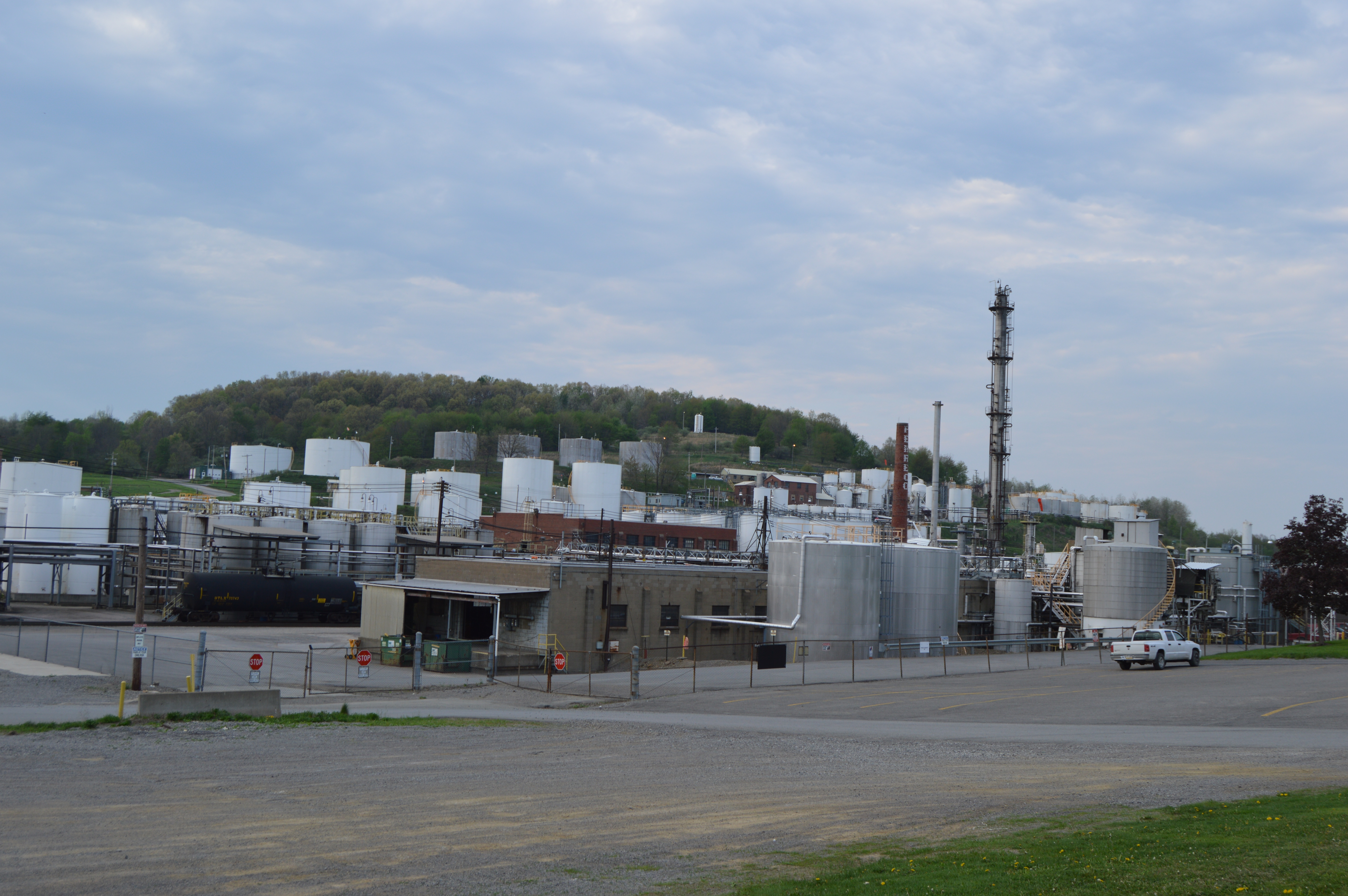 Overview from the south of the Calumet Penreco oil refinery on the northwestern side of Pennsylvania Route 268 in Karns City, Pennsylvania, United States.